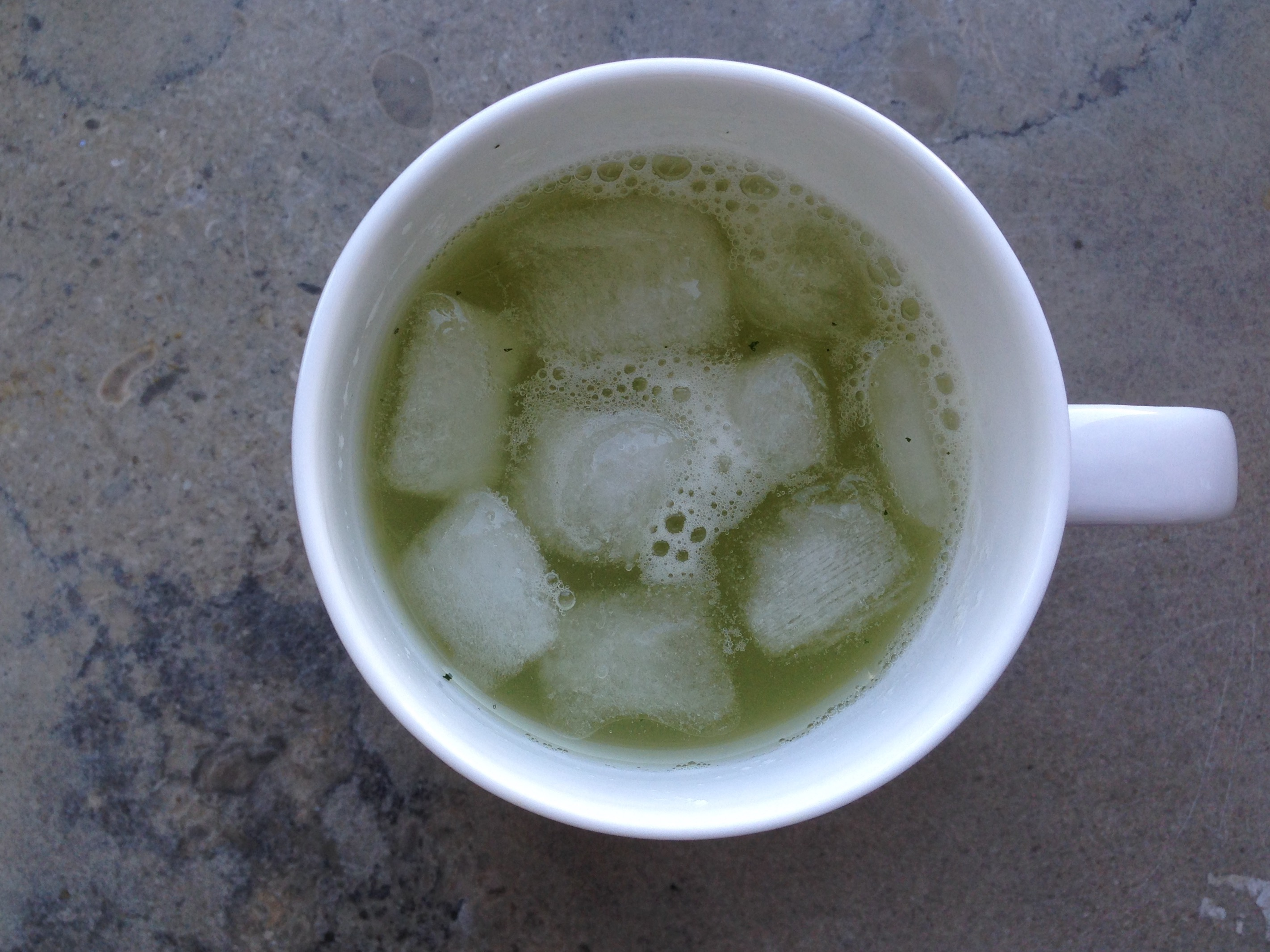 A cup of iced tencha tea